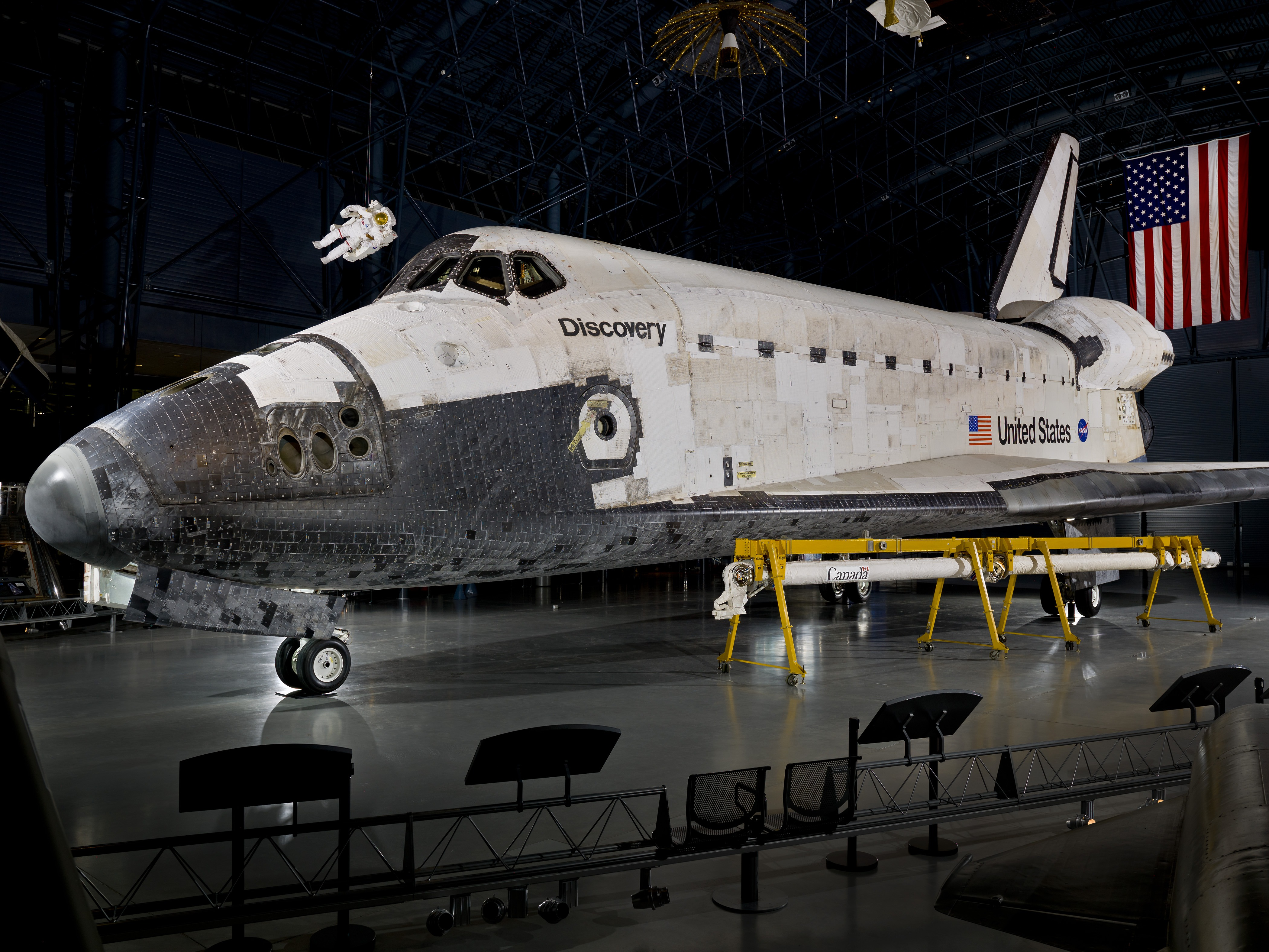 View of Space Shuttle Discovery (OV-103) (A20120325000) on display in the James S. McDonnell Space Hangar at the National Air and Space Museum's Steven F. Udvar-Hazy Center, May 3, 2012. The Shuttle Remote Manipulator Arm (SRMS, Canadarm) is displayed in the foreground, under the Shuttle's left wing and the MMU (Manned Maneuvering Unit) can be seen floating above the flight deck windows.